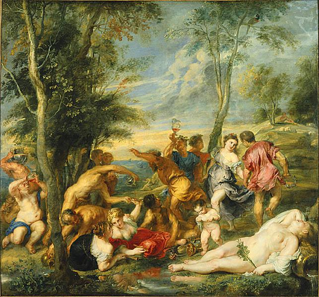 Backanal på Andros, Peter Paul Rubens (1577-1640)